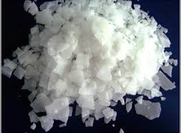 a base used in soap-low quality